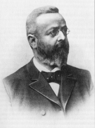 portrait of Otto Heubner, first German university professor for pediatrics